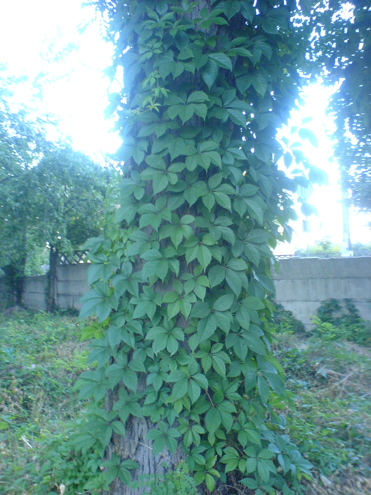 Parthenocissus quinquefolia in Marosillye, Transylvania.